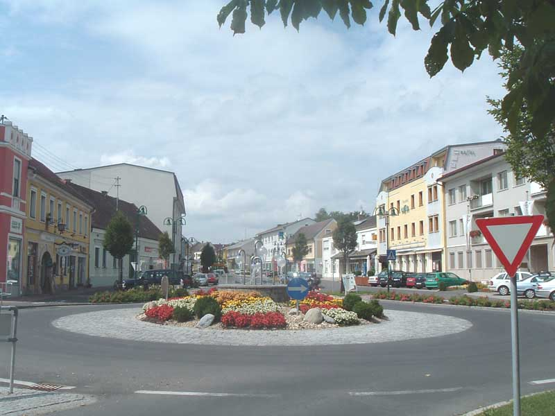 The Main Square in Jennersdorf, Austria